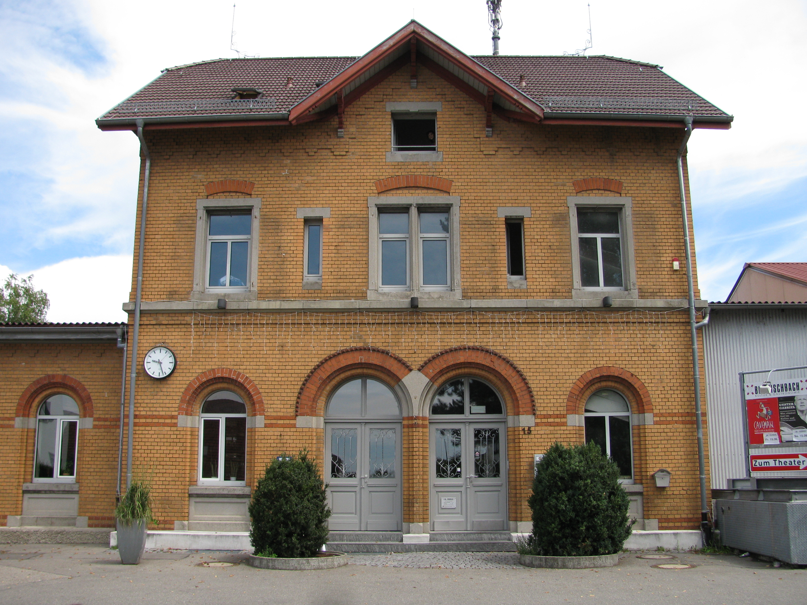 Germany - Baden-Württemberg - Bodenseekreis - Friedrichshafen - Fischbach: train station